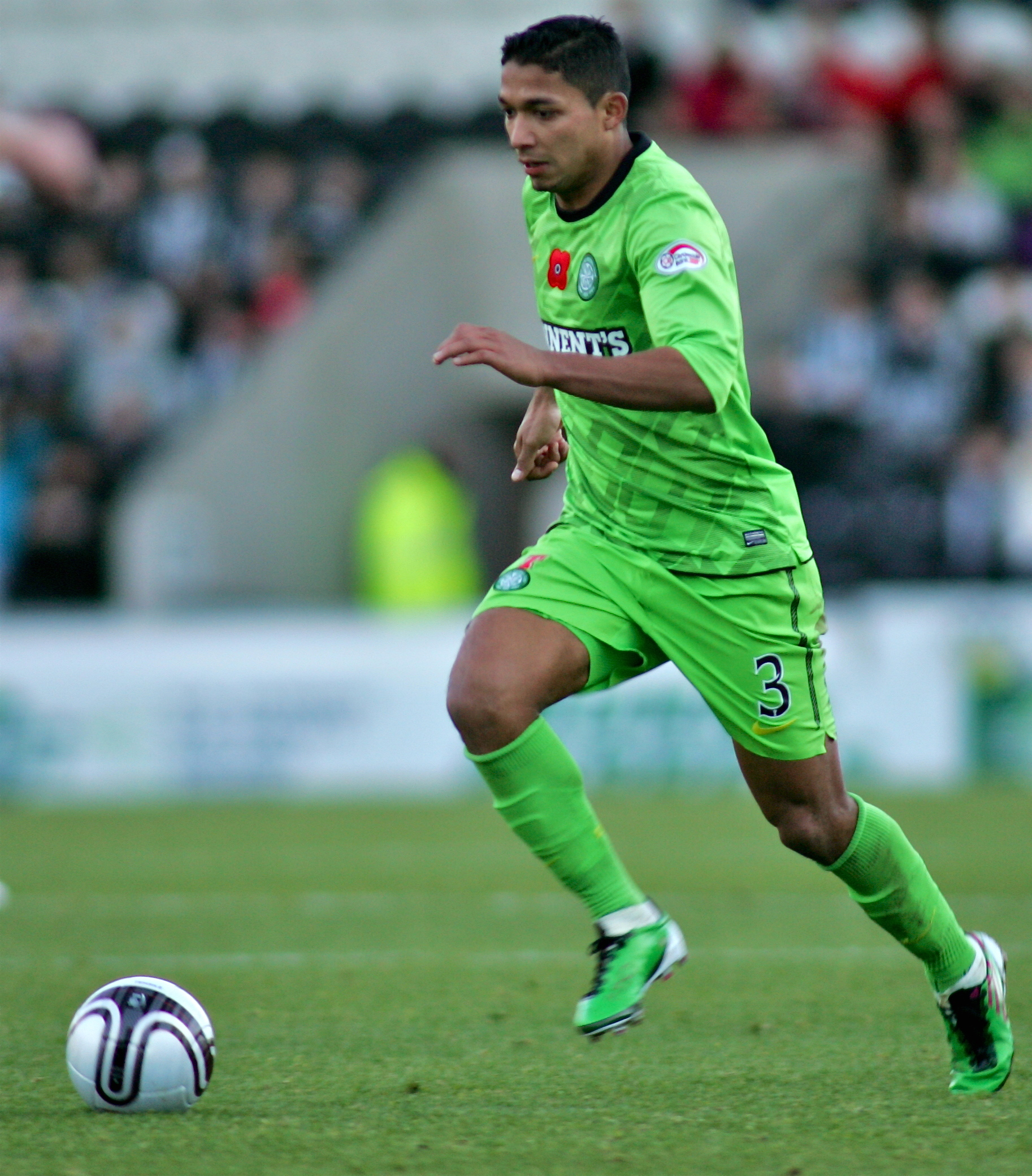 Emilio Izaguirre playing for Celtic F.C. in a Scottish Premier League match against St. Mirren F.C. on 14 November 2010.